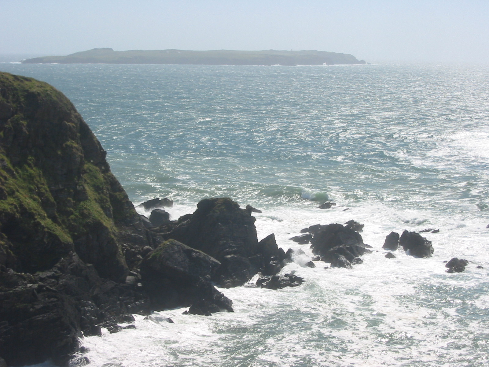 Skokholm, view from main pembrokeshire coas, Wales, UK